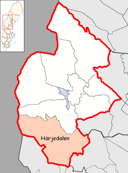 Härjedalen Municipality in Jämtland County Designd by me, based on Image:Jämtland County.png